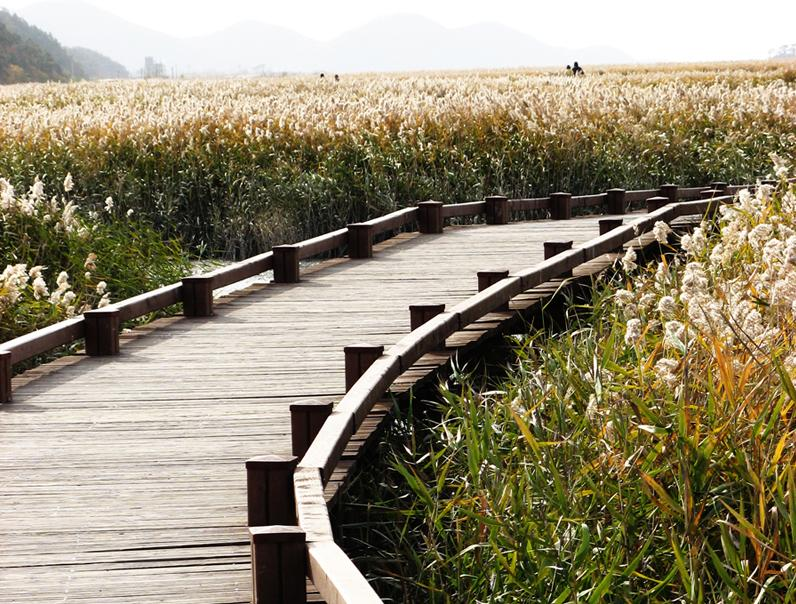 Suncheon bay and reed fields